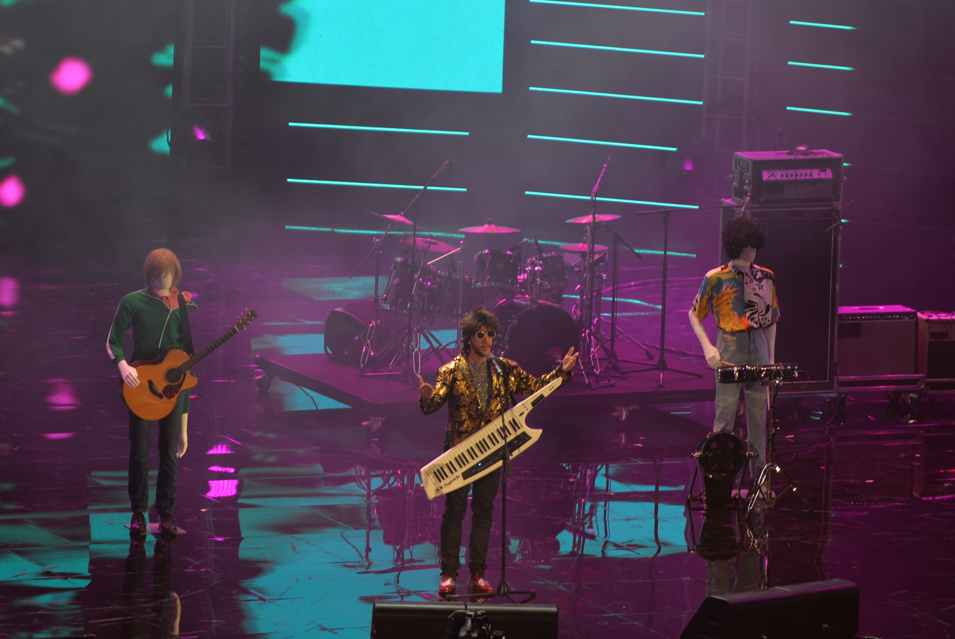 Max Gazzè during the Wind Music Awards 2016 ceremony at Verona Arena